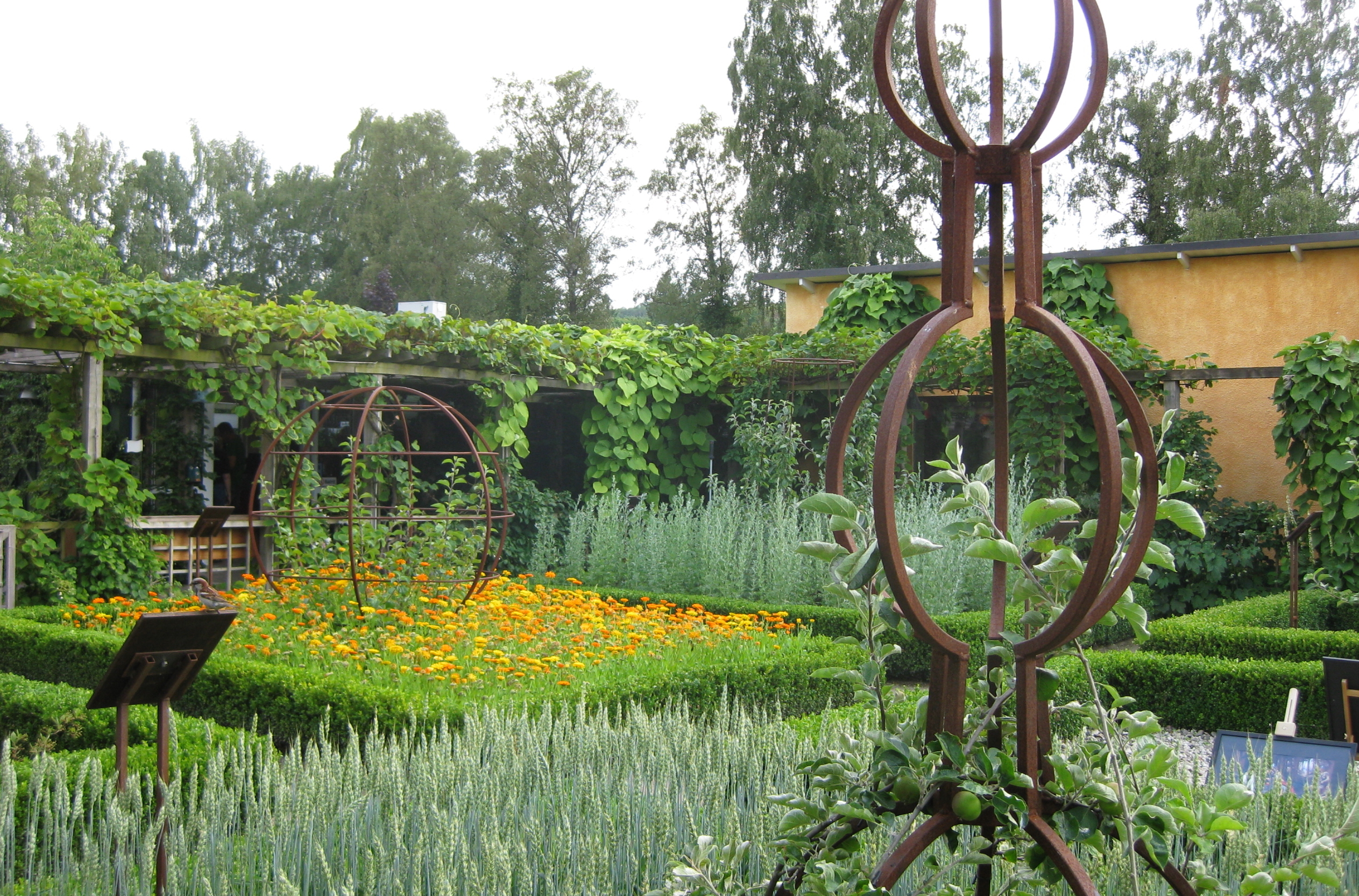 Garden at Kiviks musteri, Österlen, Skåne, Sweden